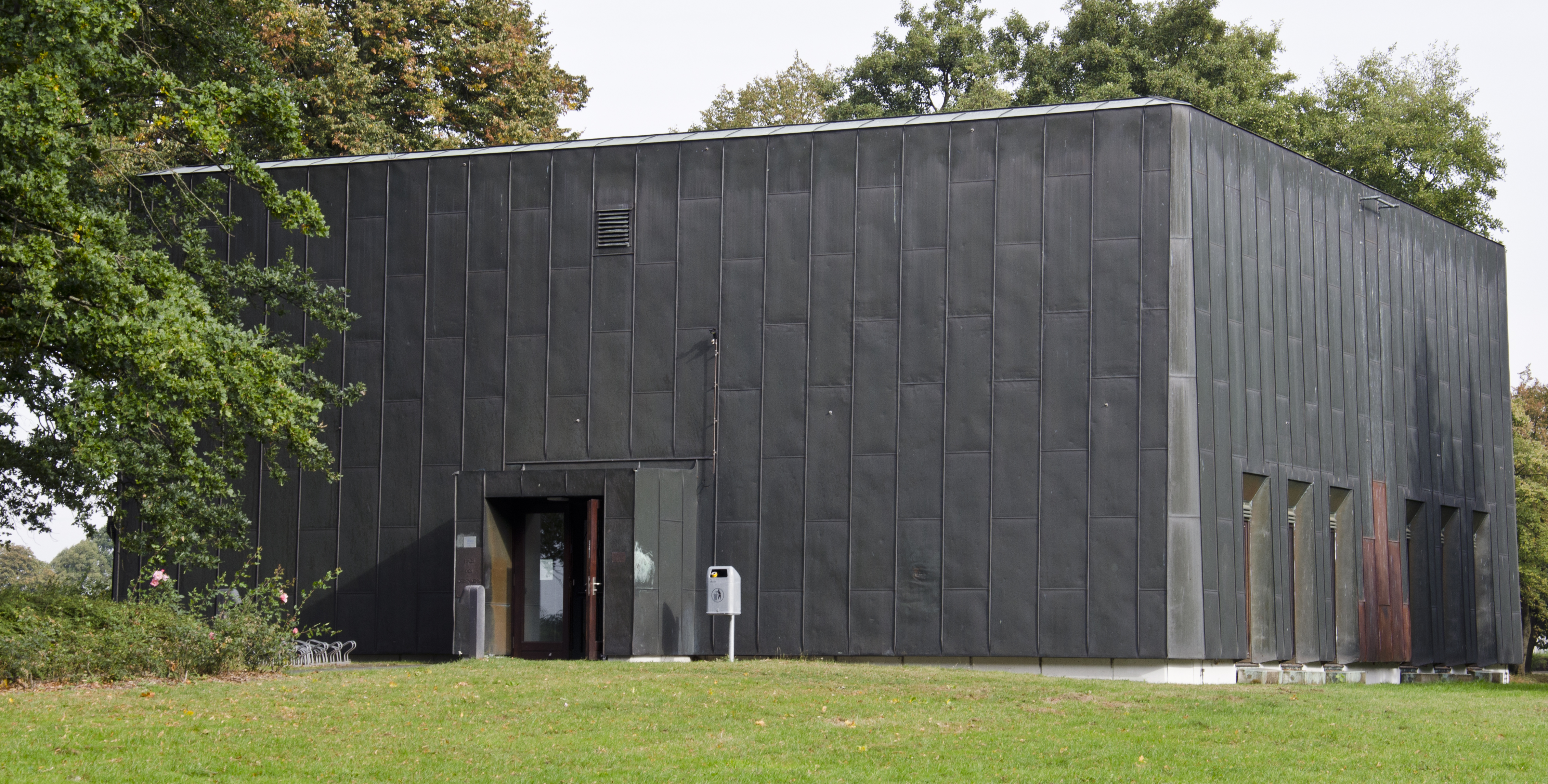 Documentation center for the Neuengamme Concentration Camp MemorialThis is a photograph of an architectural monument.